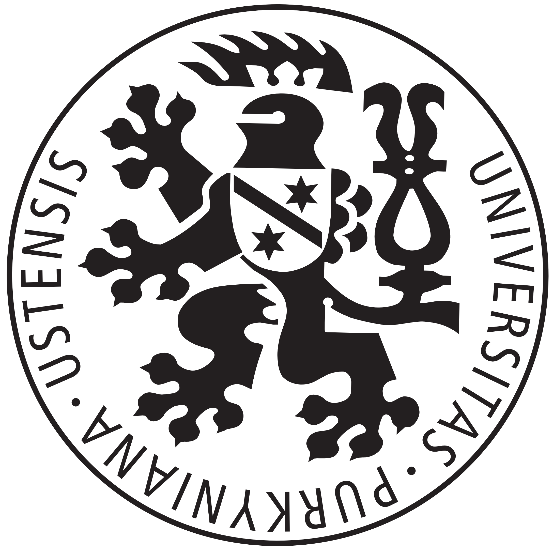 J. E. Purkyne University - heraldic & ceremonial symbol